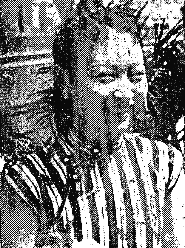 Ms. Chu Sau Chun (1917 - 1939), a famours singer in Hong Kong brothel. 中文（香港）: 香港塘西歌妓：花影恨 (朱秀珍)小姐 (1917 - 1939)